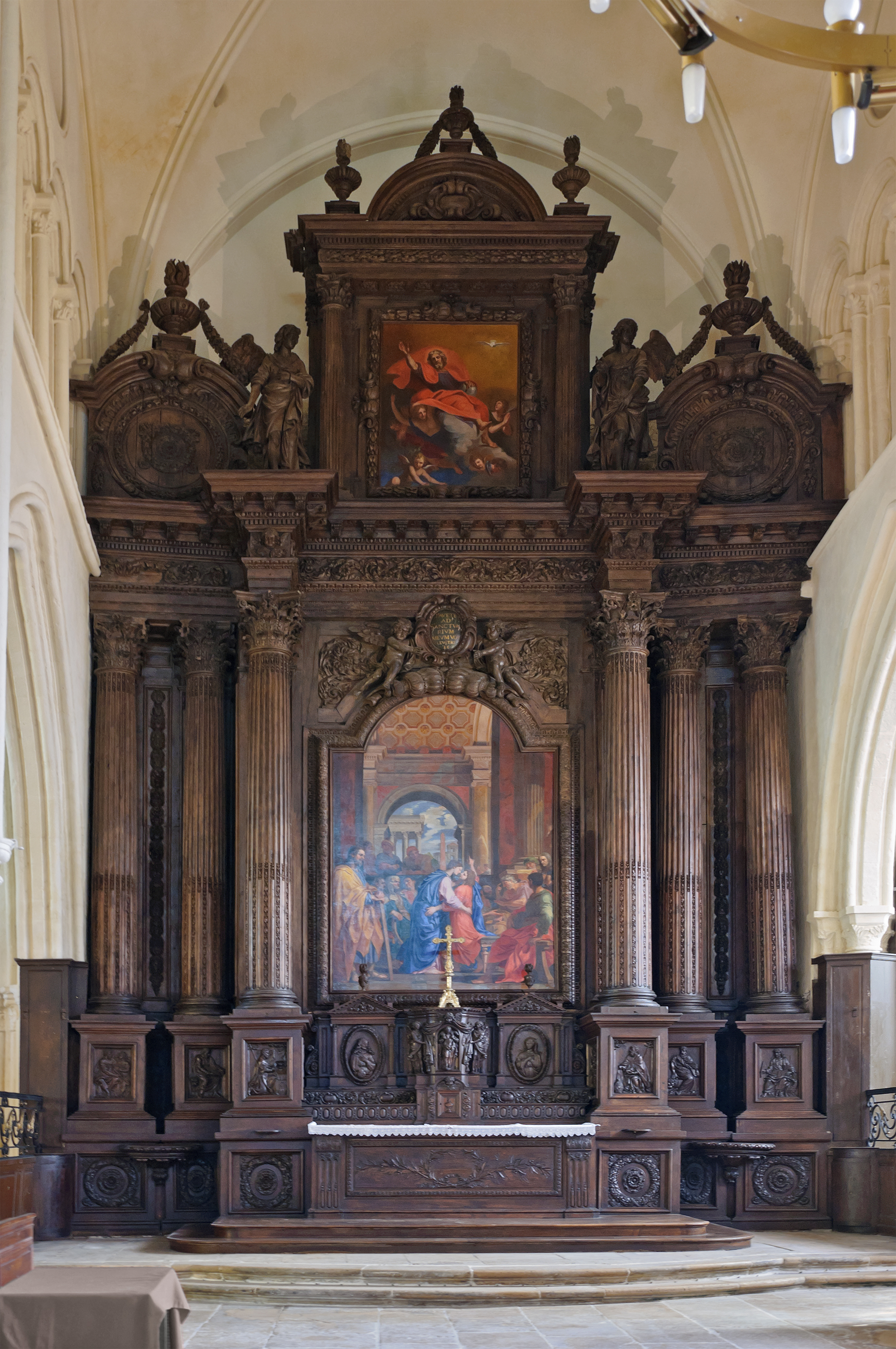 Altarpiece (reredos) of the high altar of Saint Ayoul church, Provins, Seine-et-Marne, France. 17th-century altar piece, sculptor:Pierre Blasset (†1663). Painting in the center: Jesus among the Doctors; painter: Jacques Stella (1596-1657).